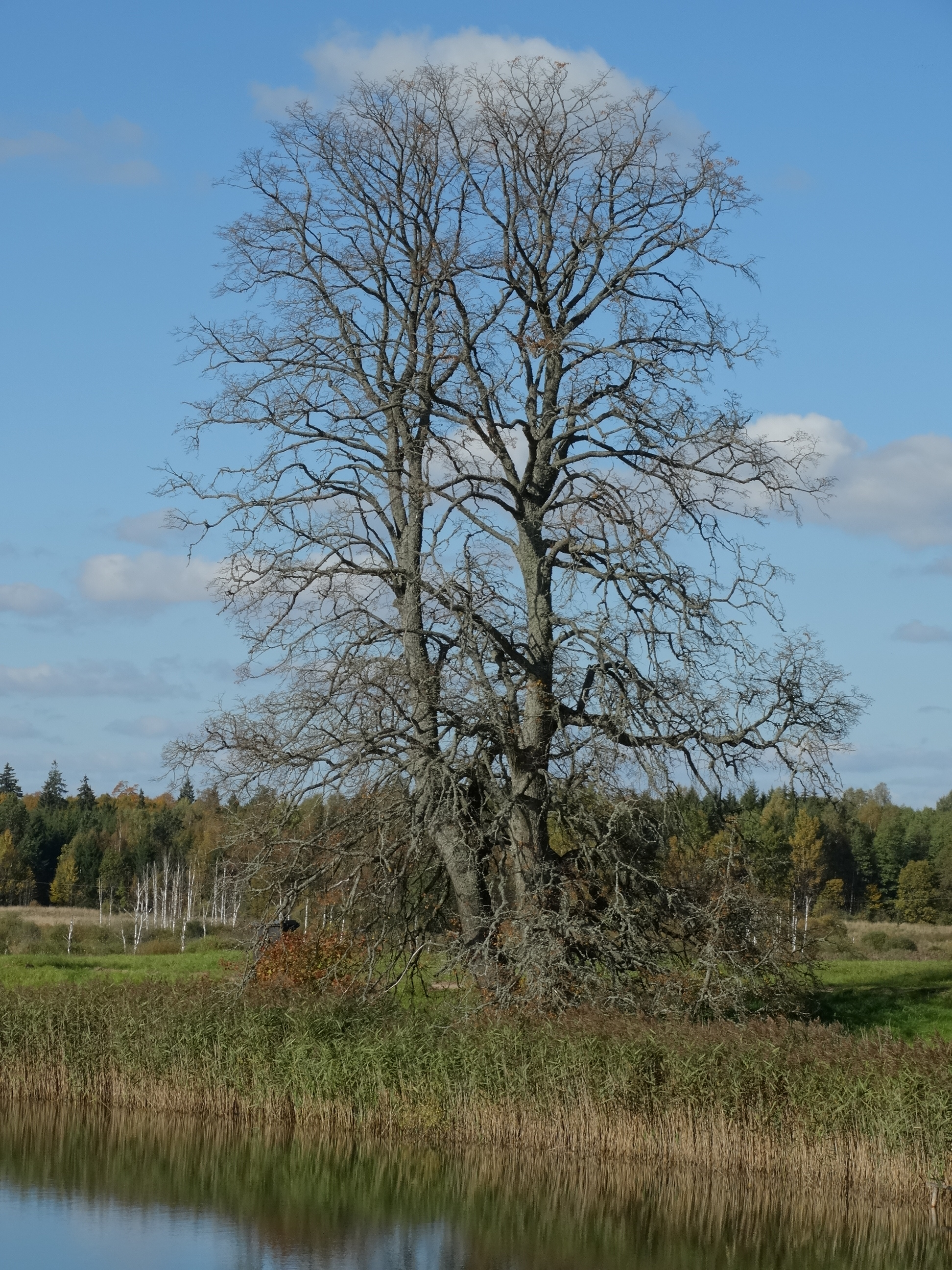 Lime tree, Kaukinė, Kaišiadorys district, Lithuania